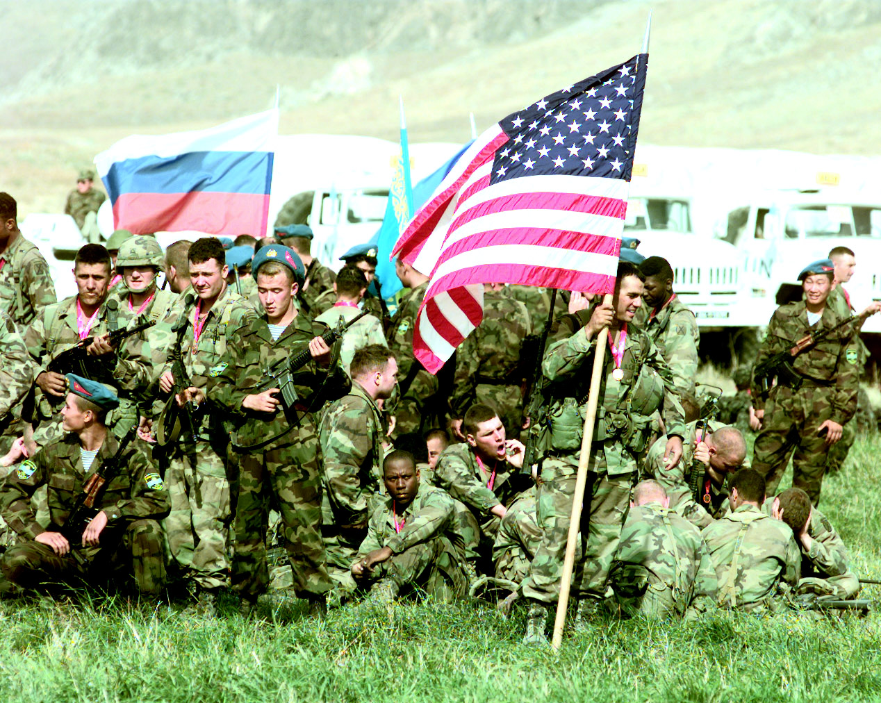 Soldiers from the U.S. Army's 10th Mountain Division, Fort Drum, N.Y., intermingle with their foreign counterparts prior to the closing ceremony for Exercise CENTRAZBAT '98, in Osh, Kyrgyzstan, on Sept. 28, 1998. Exercise CENTRAZBAT '98 involves more than 450 military personnel from Azerbaijan, Georgia, Kazakhstan, Kyrgyzstan, Russia, Turkey, and Uzbekistan who are training with over 250 U.S. military troops to hone their peacekeeping skills. The exercise is designed to enhance regional cooperation and increase interoperability training among NATO and Partnership for Peace nations.